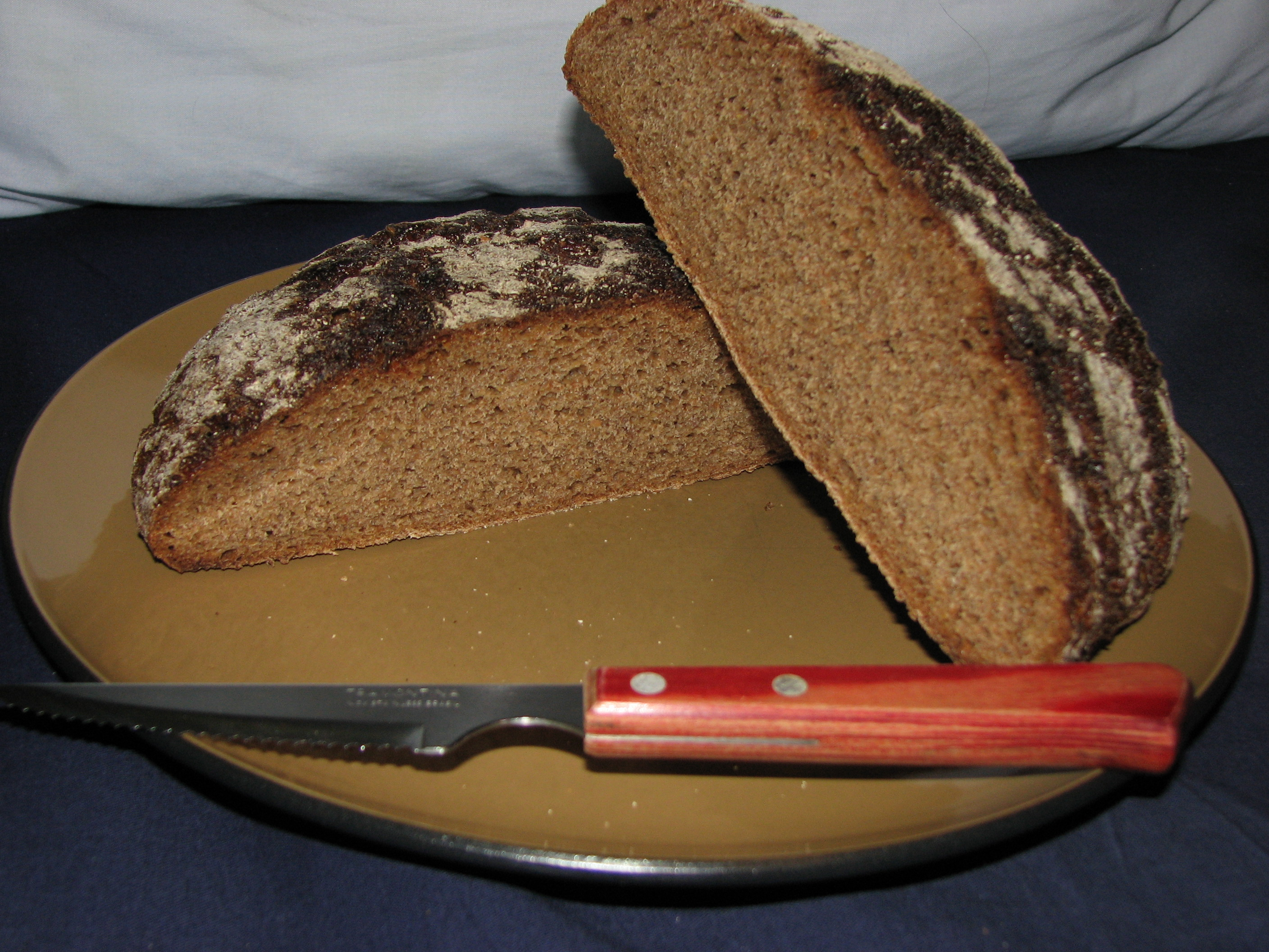 A typical ruislimppu, cut in half.